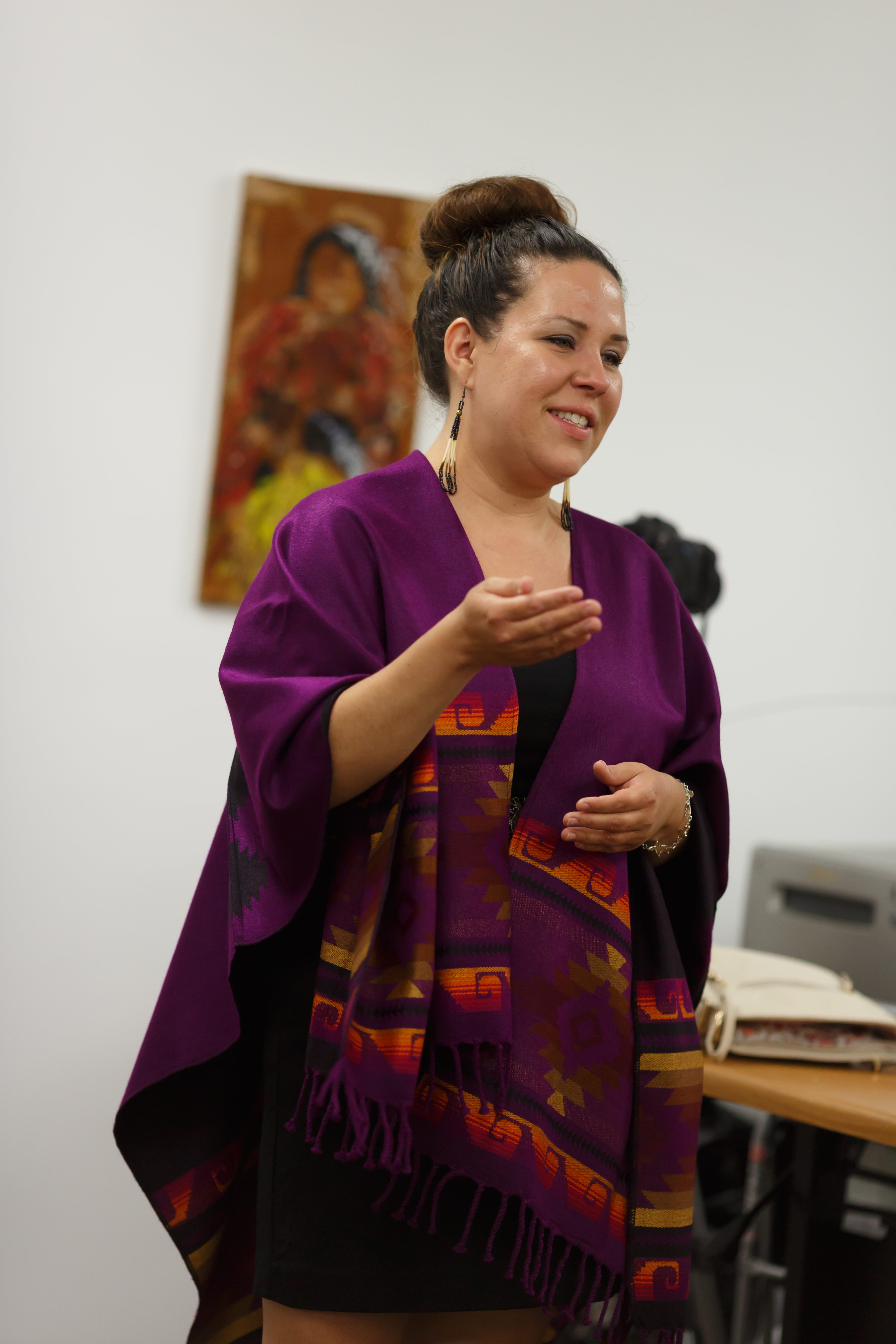 Roxanne Martin speaking at her art exhibition in Algoma University's Residential Schools Centre August 3, 2014.